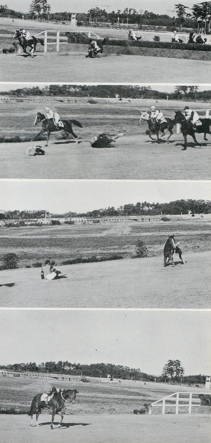 a scene of fall and re-ride at steeplechase racing.